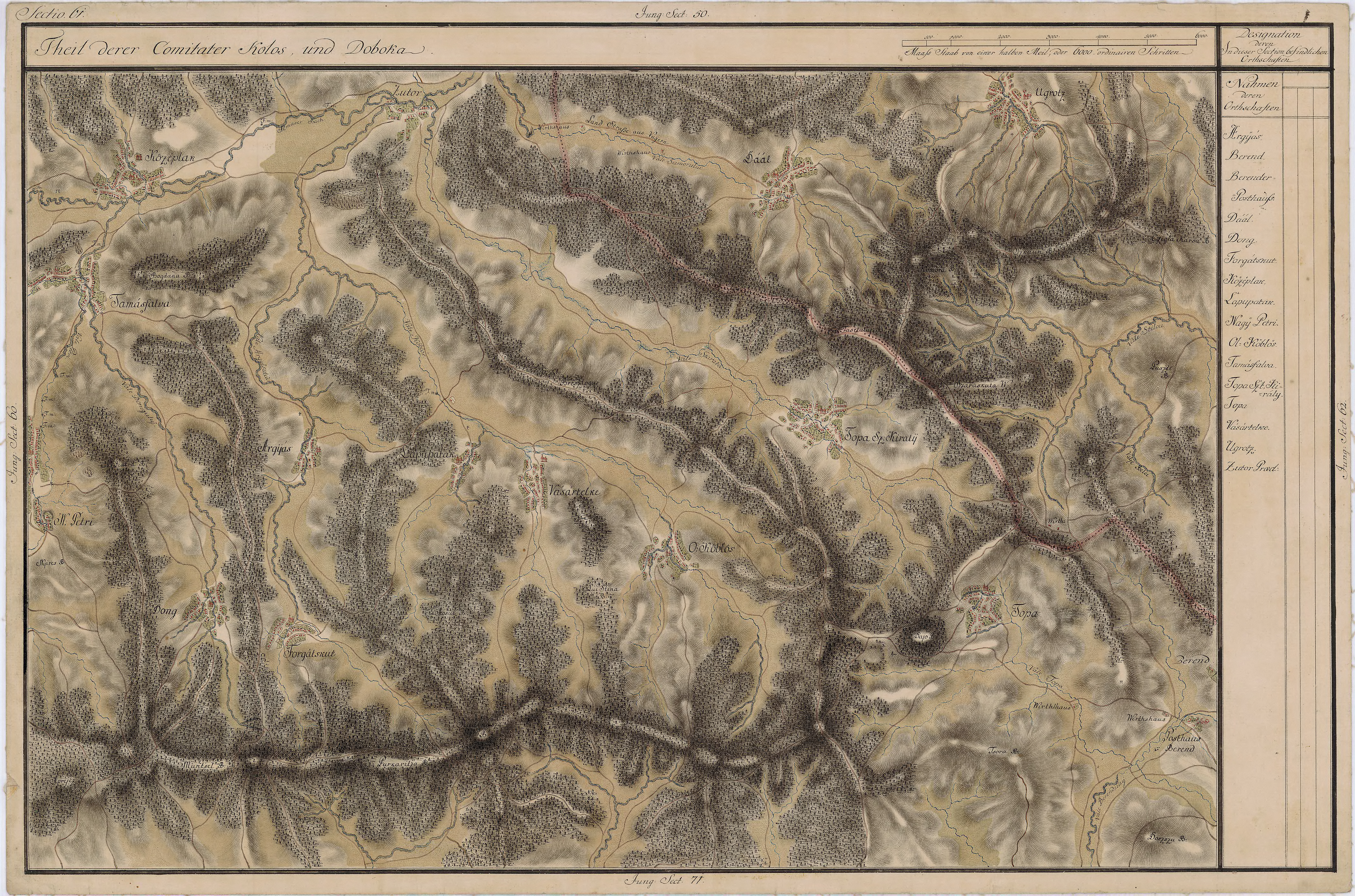 Grand Duchy of Transylvania, 1769-1773. Josephinische Landaufnahme pg.061